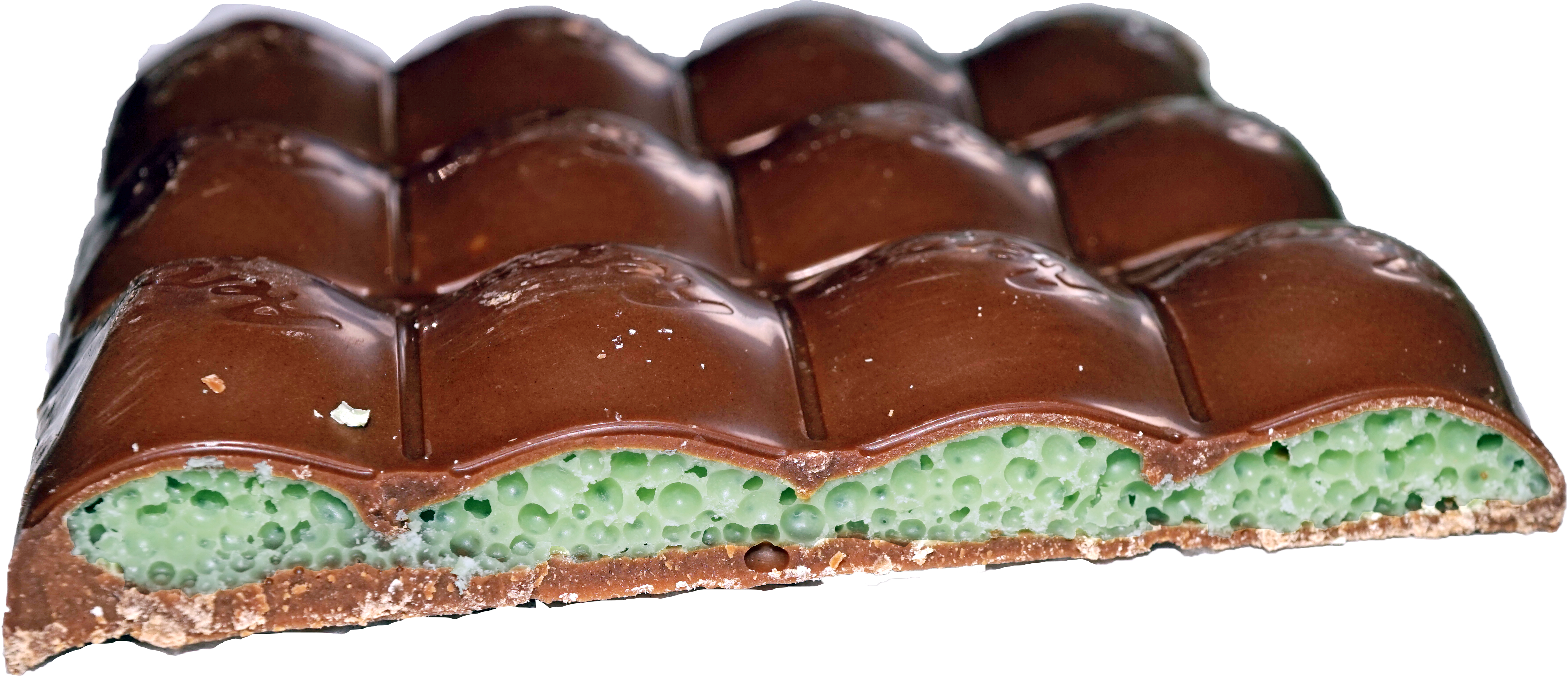 AERO Peppermint Bubble Bar.